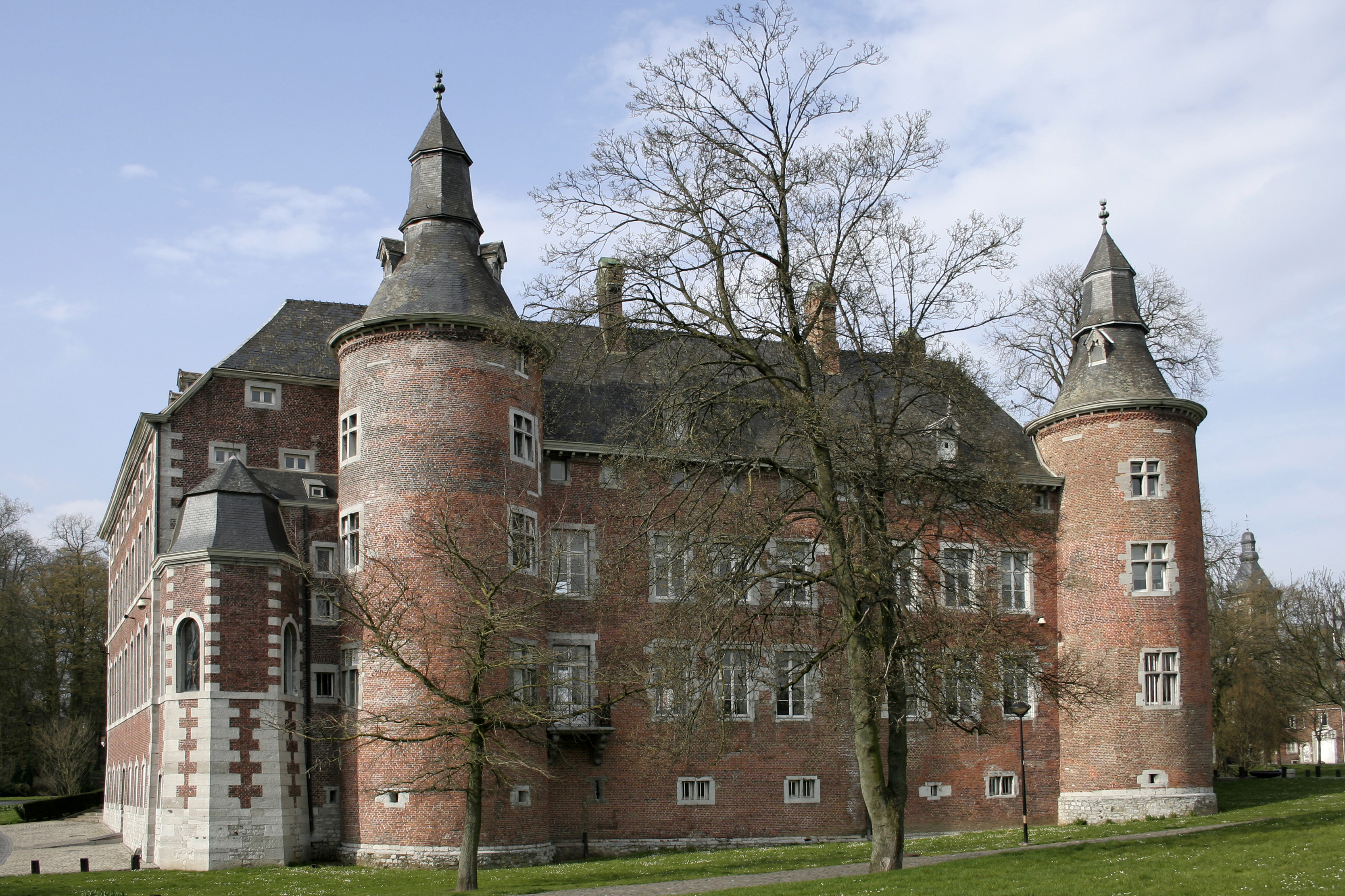 Monceau-sur-Sambre (Belgium), the castle (XVII/VVIIIth centuries).